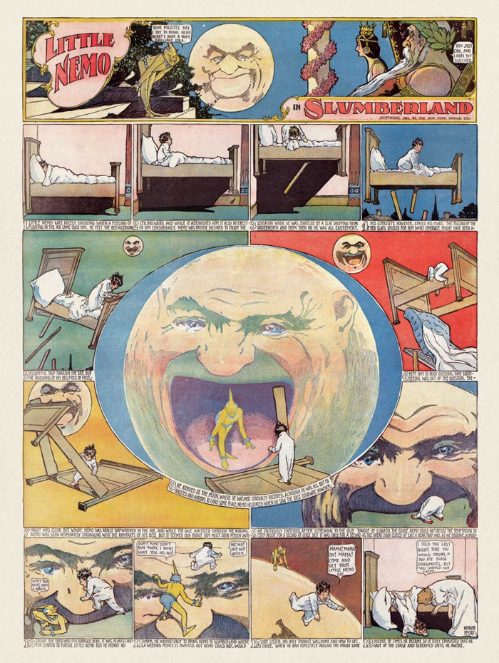 Little Nemo comic strip by Winsor McCay